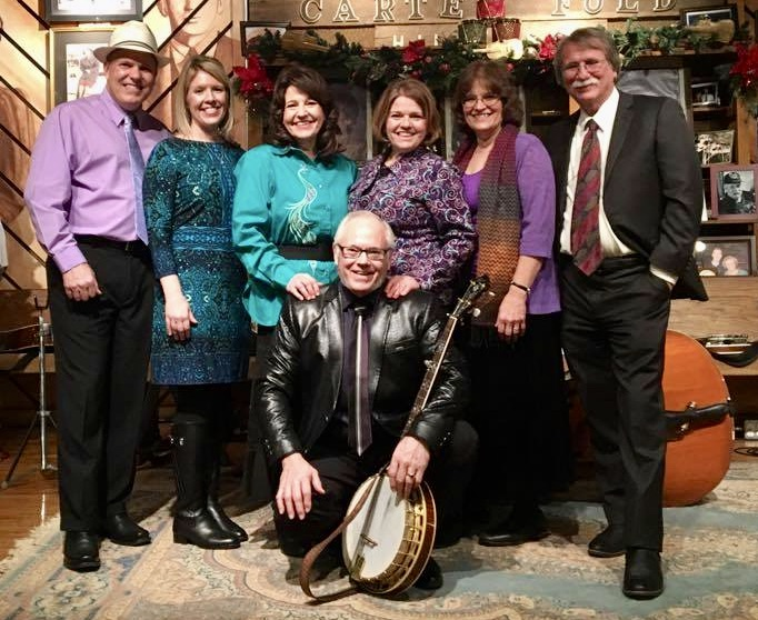 The McLain Family Band (Michael McLain, Jennifer Banks McLain, Ruth McLain Smith, Raymond Winslow McLain, Nancy Ann Wartman, Rose Alice White, and Al White) at the Carter Family Fold after their annual concert thereat on 7 Jan 2017